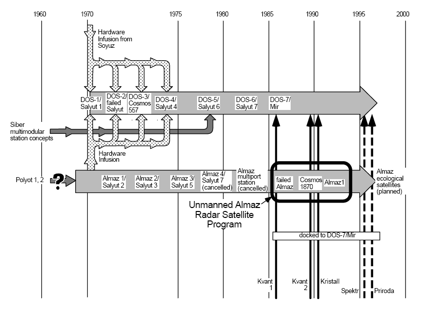 Figure 2-1. Station evolution. The chart above summarizes the development of the Soviet/Russian space stations and derivatives. Light gray arrows trace the evolution of space stations and satellites derived from space station hardware. Dark gray arrows trace the influence of concepts on later flown hardware. The stippled arrow leads from the Soyuz Programs chart (figure 1-1). Solid black arrows indicate modules joined to Mir, while dashed black arrows stand for modules to be added to Mir in the near future. These arrows lead from the Station Modules and Tug Programs chart (figure 3-1).